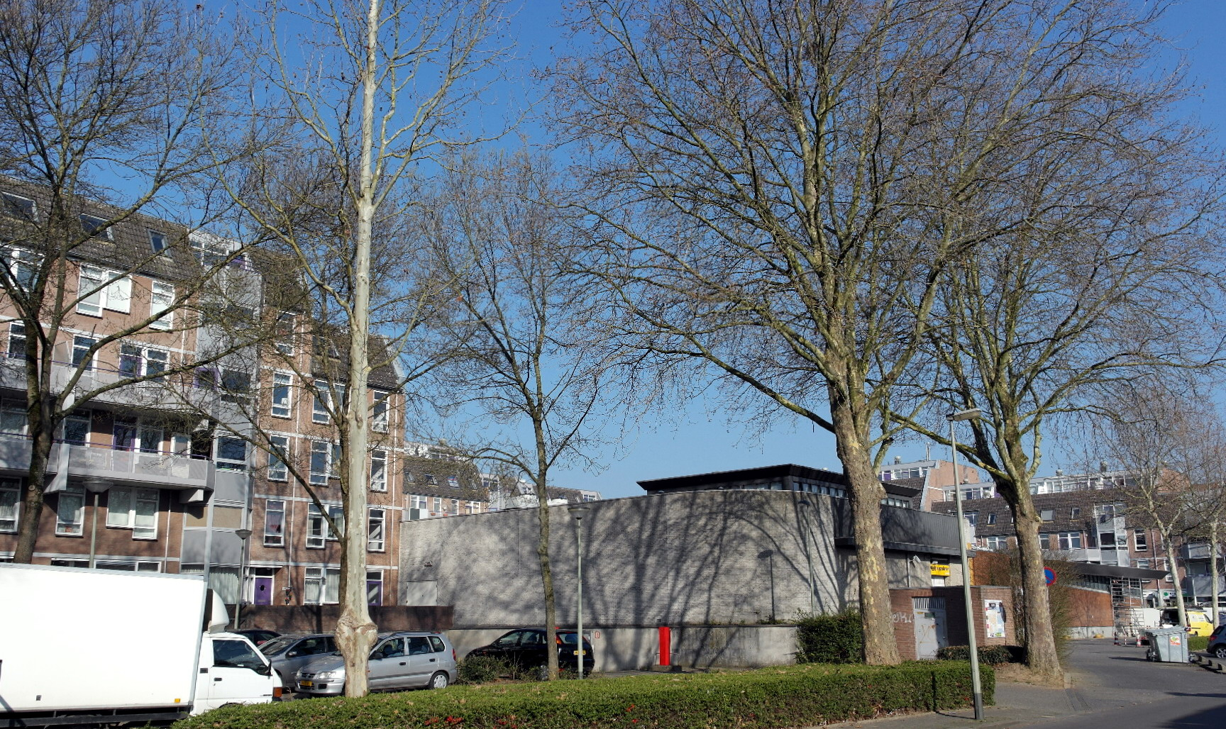 Maastricht, the Netherlands. View of shopping center Roserije in the southeastern neighbourhood of De Heeg.